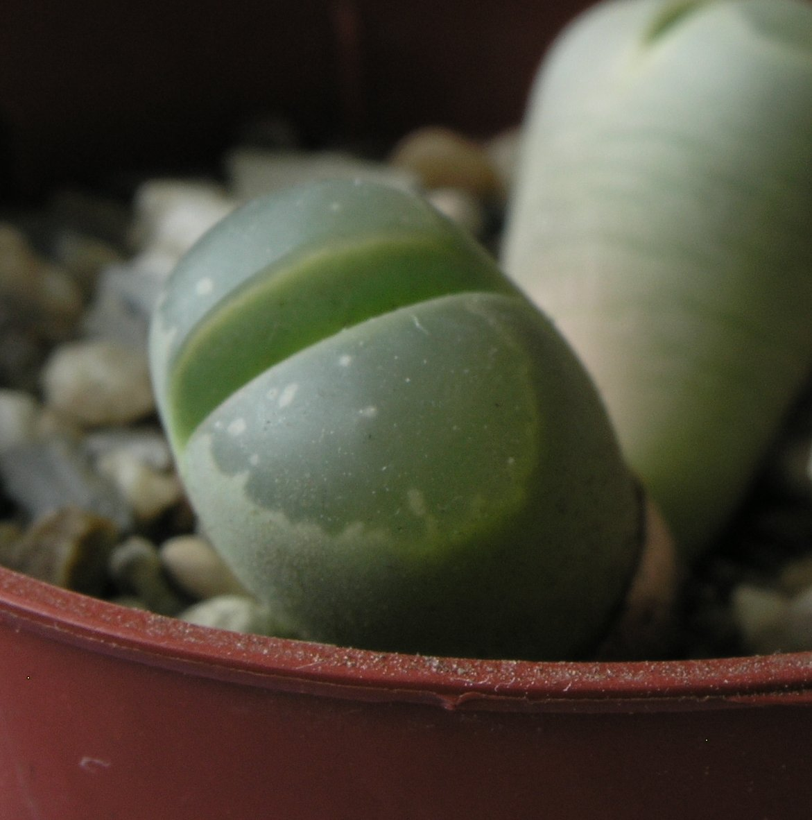 Lithops olivacea (plant collection of Ivan I. Boldyrev, Berdsk, Russia)